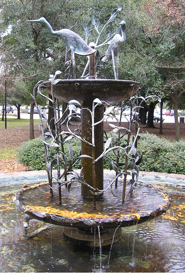 Richard Chambers, photographer, image taken 02/21/2007 in the park in downtown Metter showing the fountain with two herons.